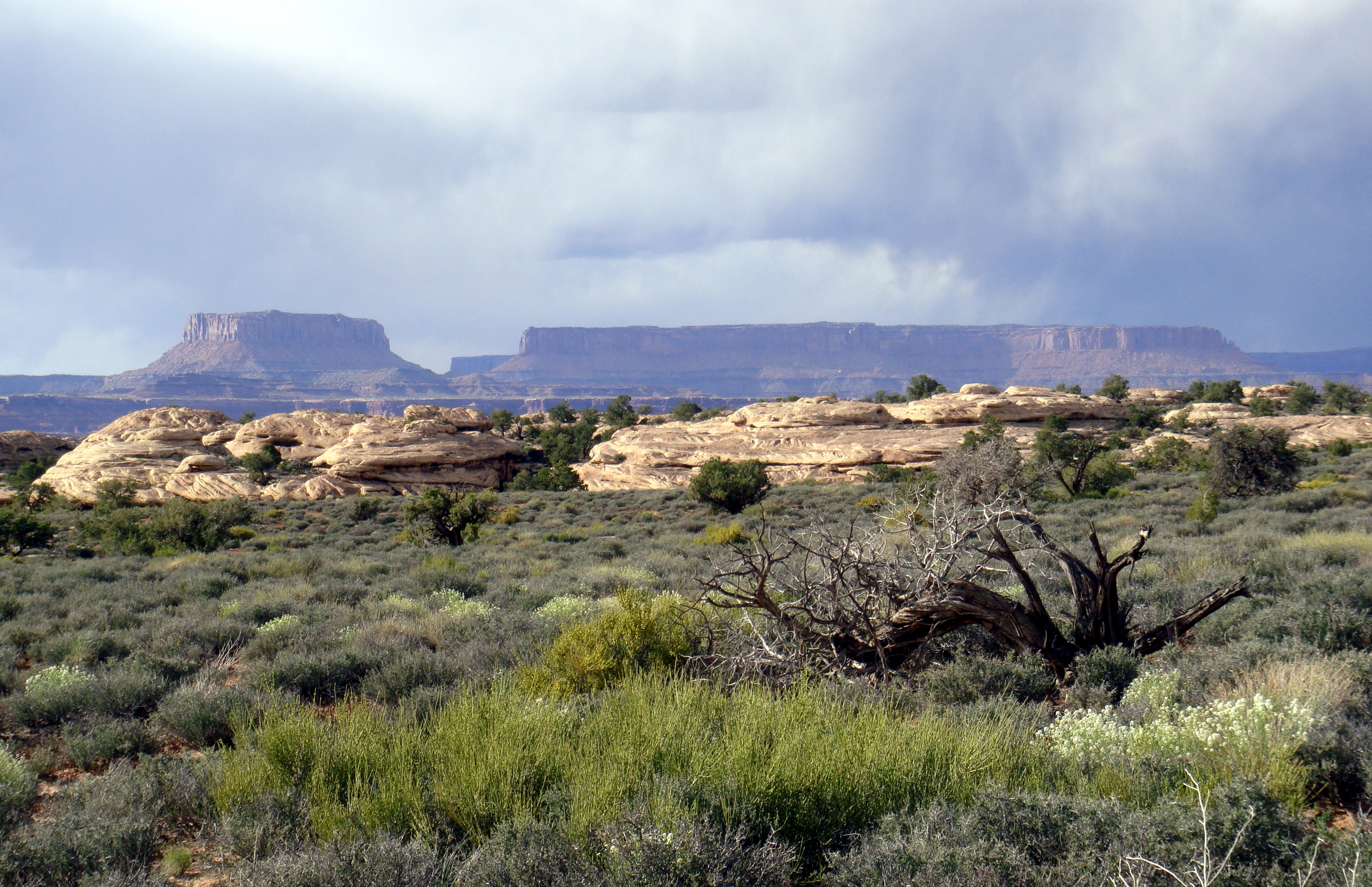 The mesas of Island in the Sky district of Canyonlands National Park, as seen from the Needles district.